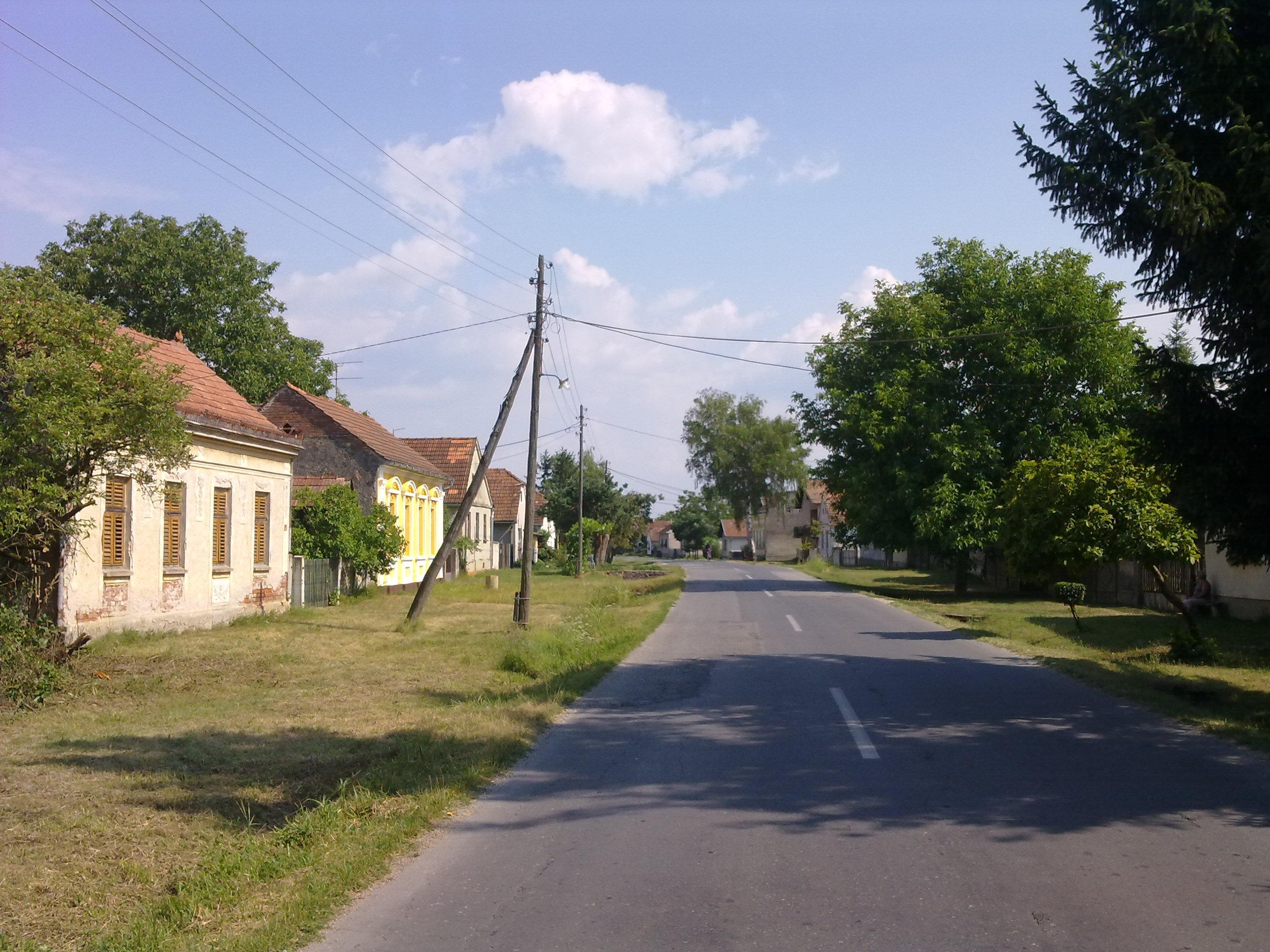 Hlebine